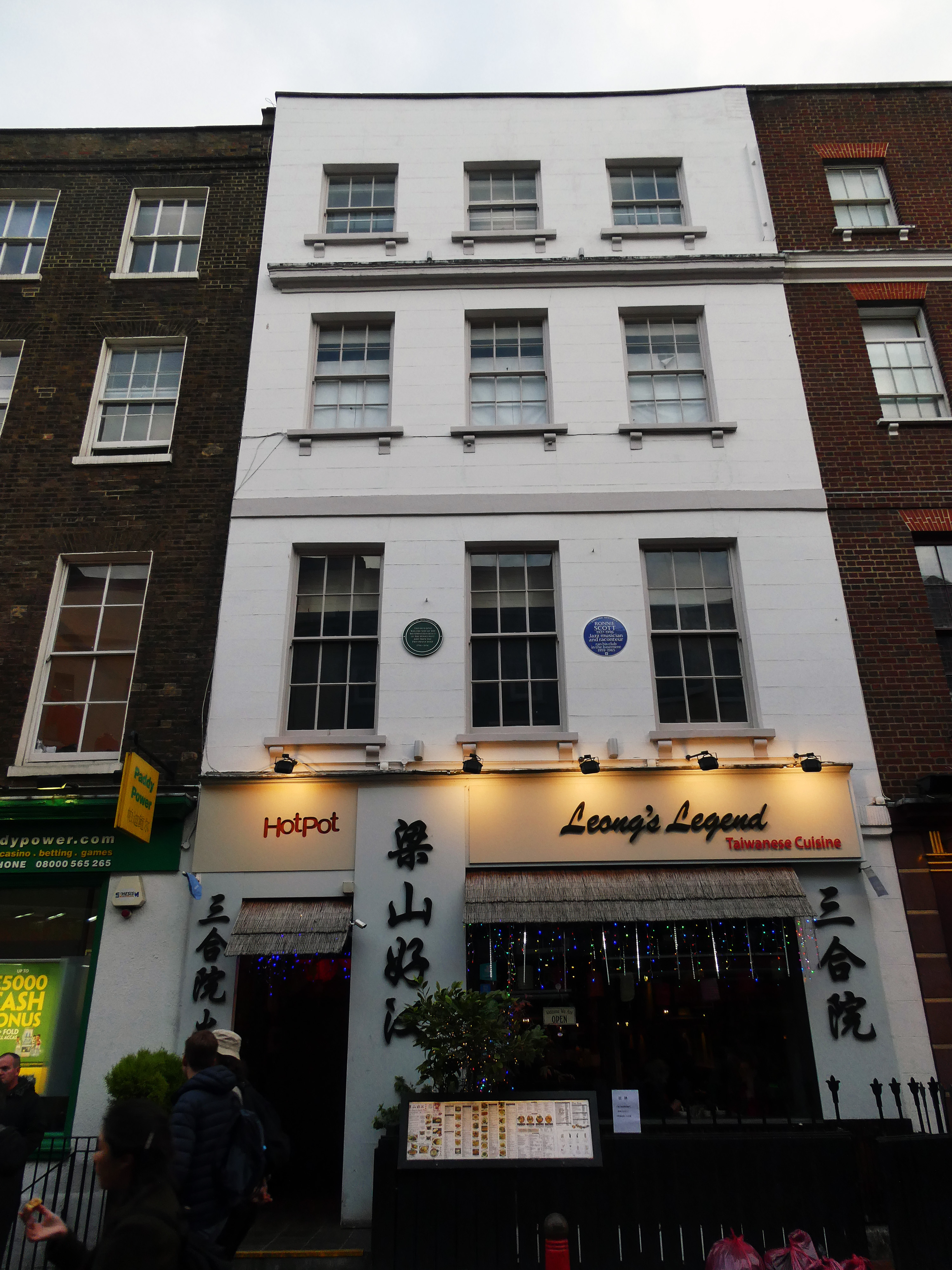 39 Gerrard Street, Soho, London, W1D 5QD, City of Westminster. "RONNIE SCOTT 1927-1996 Jazz musician and raconteur ran his club in the basement 1959-1965"